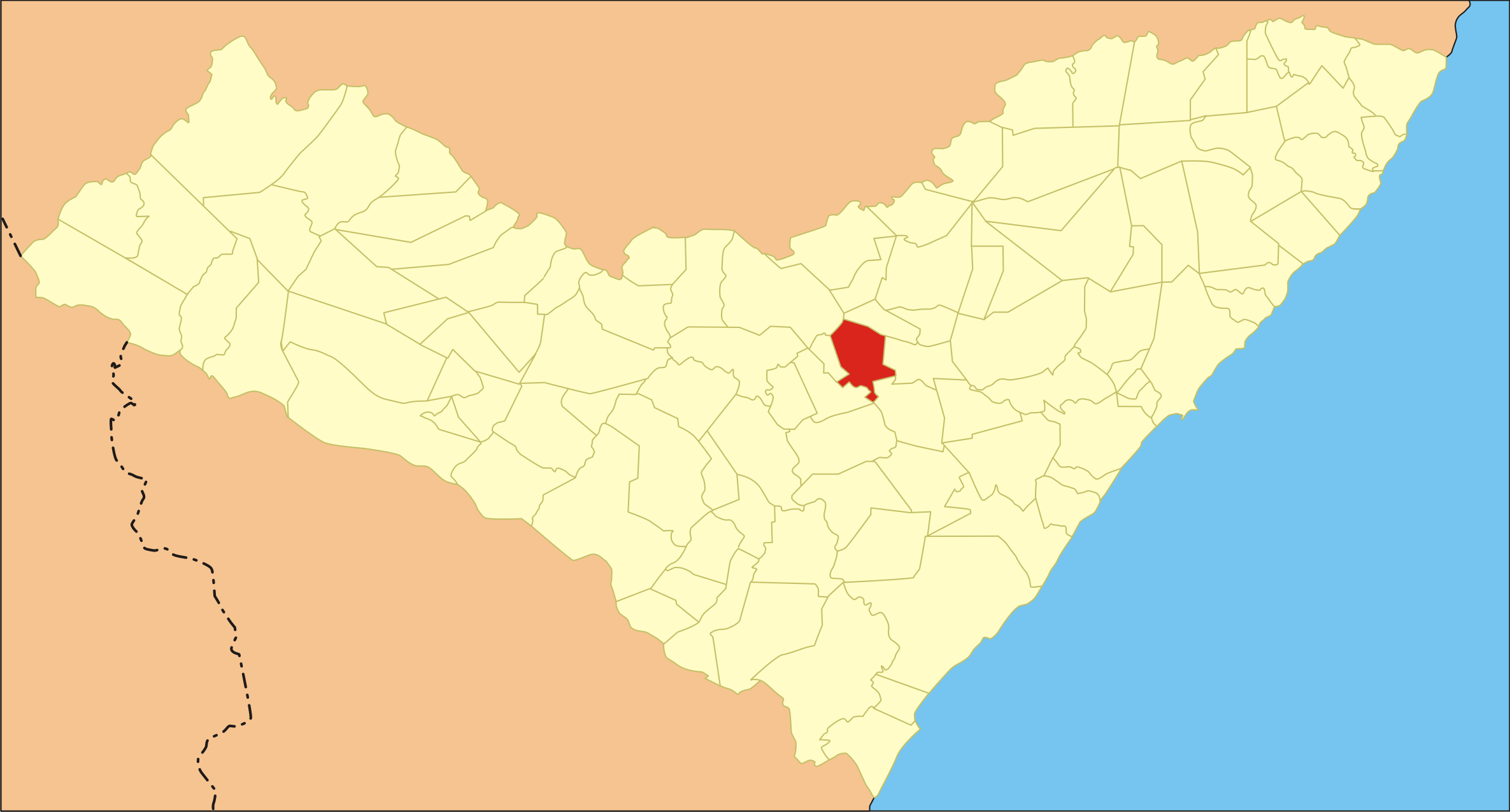 City localization in Alagoas